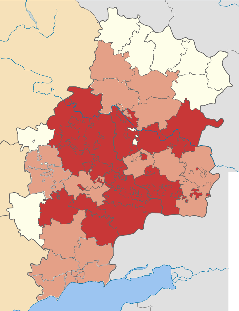 Territory that has been under control or attempted control of the Federal State of Novorossiya until 17th of June of 2014